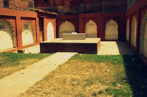 Mazar of Sheikh Mohammad Ibrahim Zauq